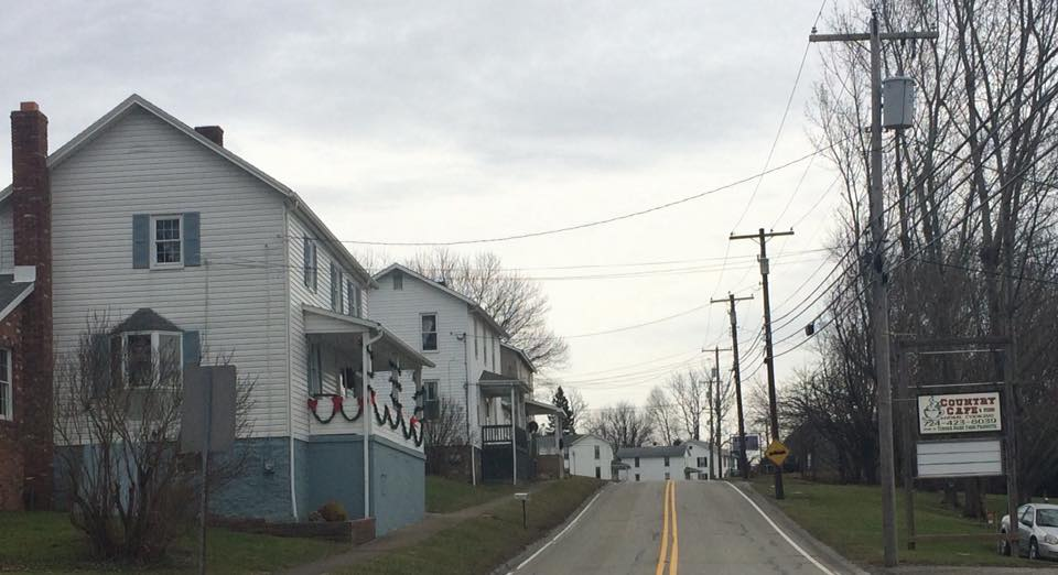 Facing north on Route 981 (Pleasant Unity Rd)